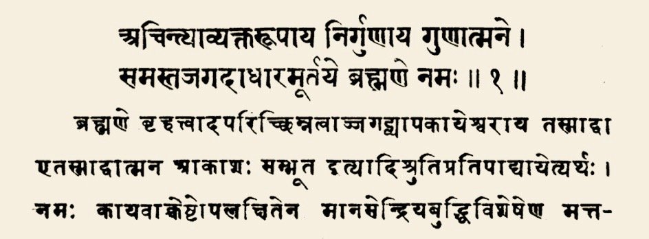 A photo of the first verse of the first page of the Indian astronomy Sanskrit text. The edition was published in 1847. The same manuscript, and this specific verse, can be verified in Fitz Edward Hall's publication titled The Surya Siddhanta: An Ancient System of Hindu Astronomy publication in 1859. The verse is a homage to a Hindu god, a typical way early medieval era Hindu texts start.